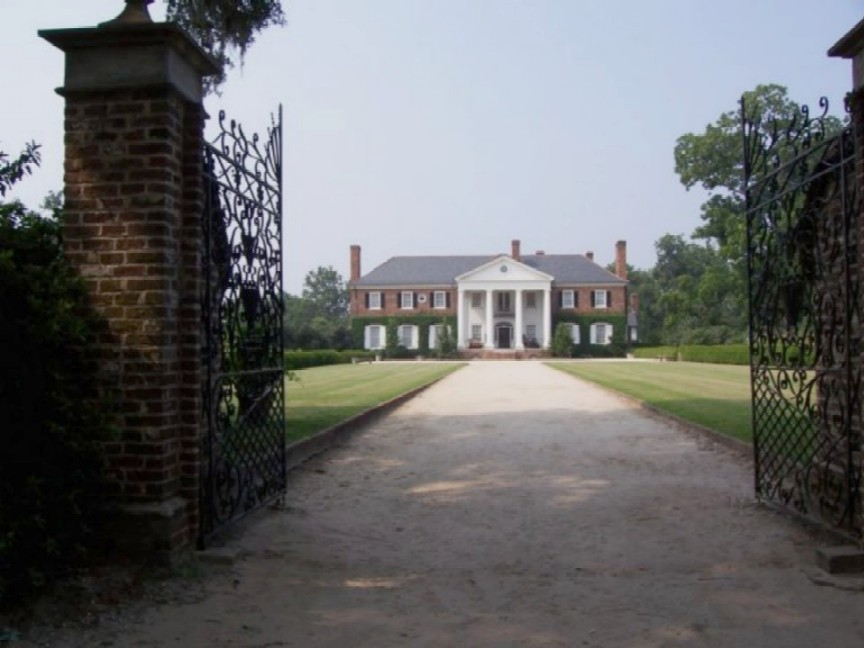 Boone Hall Plantation in Mount Pleasant, South Carolina info